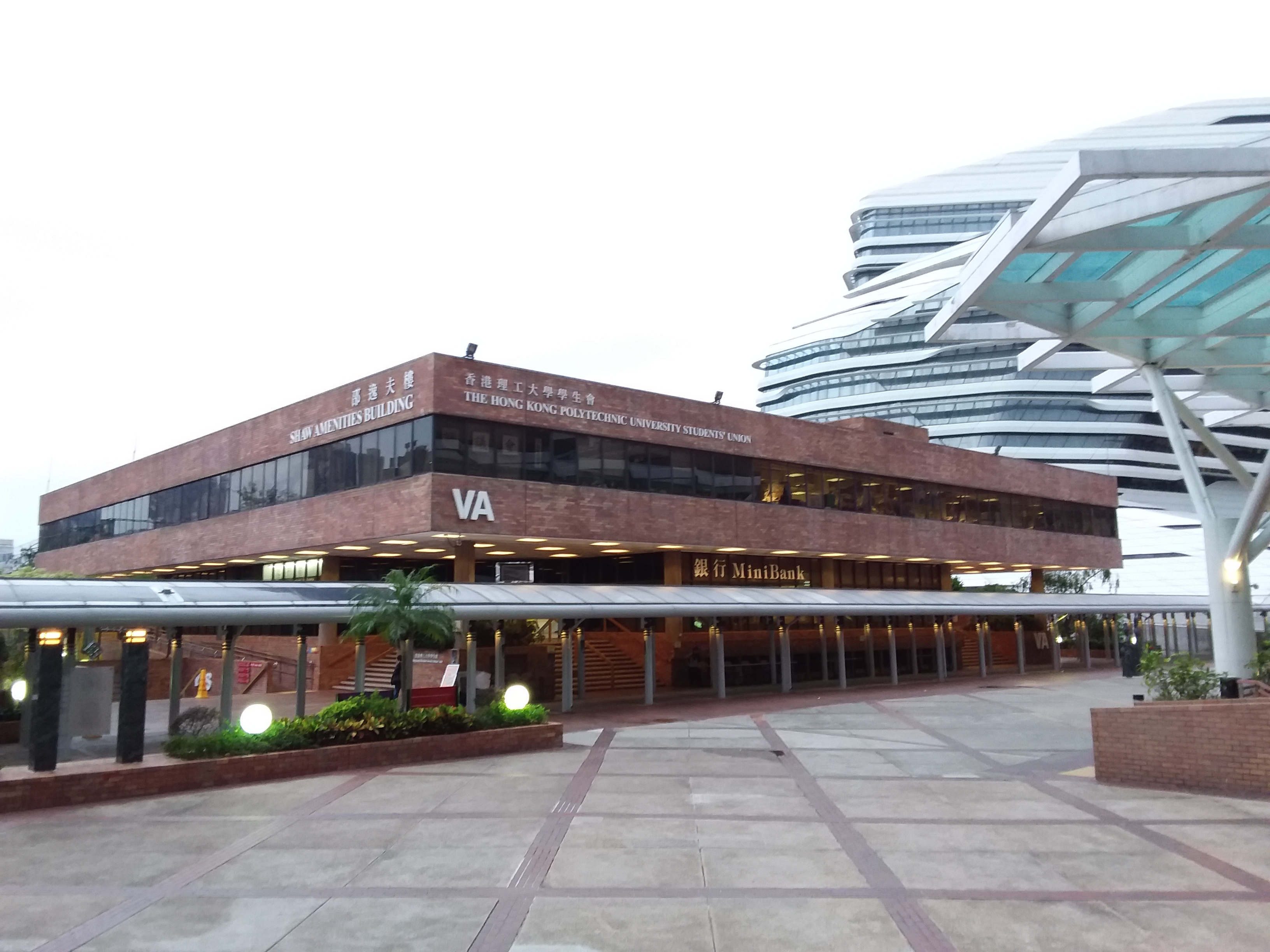 HK 香港理工大學 PolyU 紅磡 Hung Hom campus morning October 2018